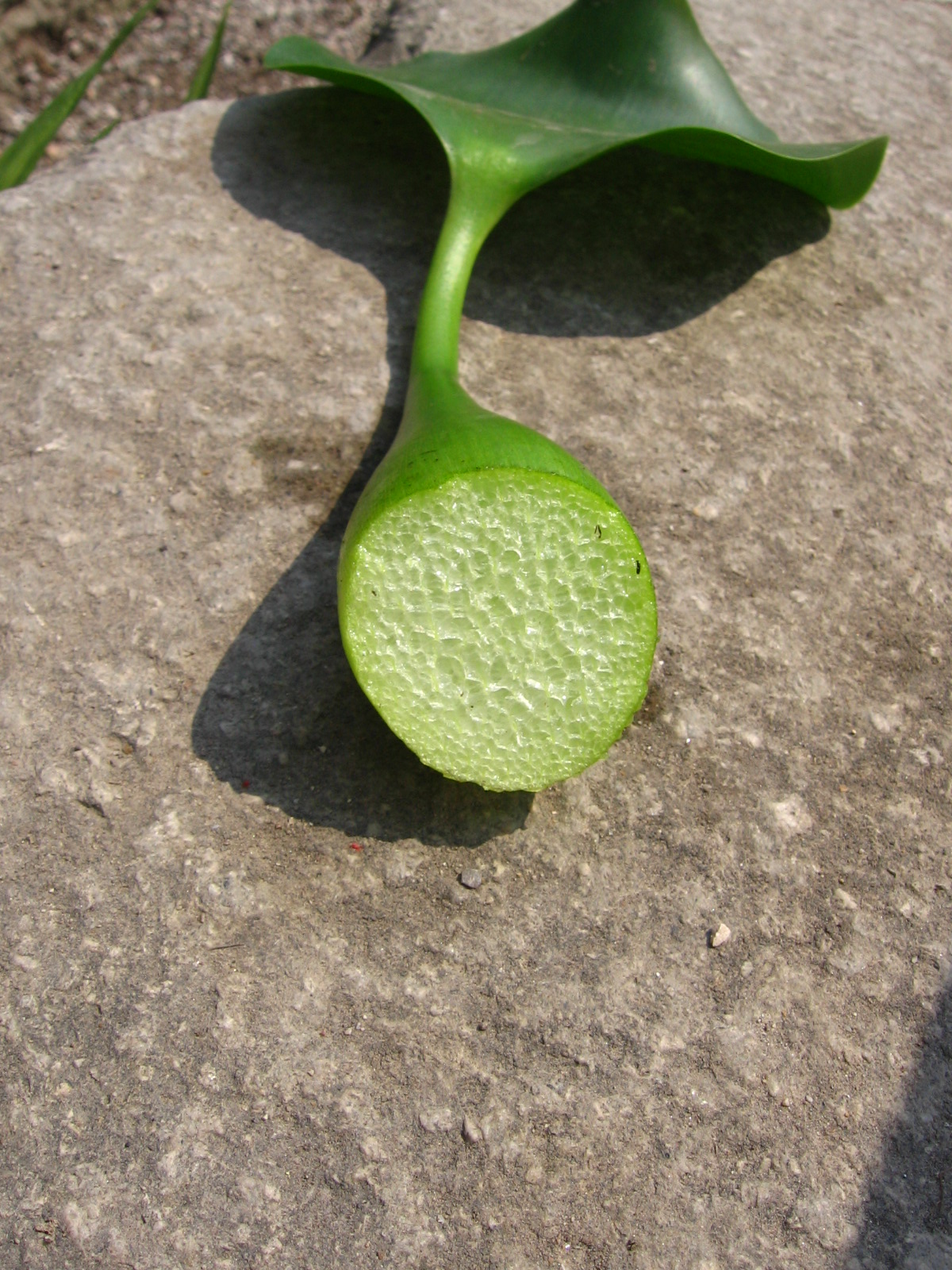 Section of a water hyacinth (Eichhornia crassipes) stem showing its spongy structure, responsible for the plant's flotation.